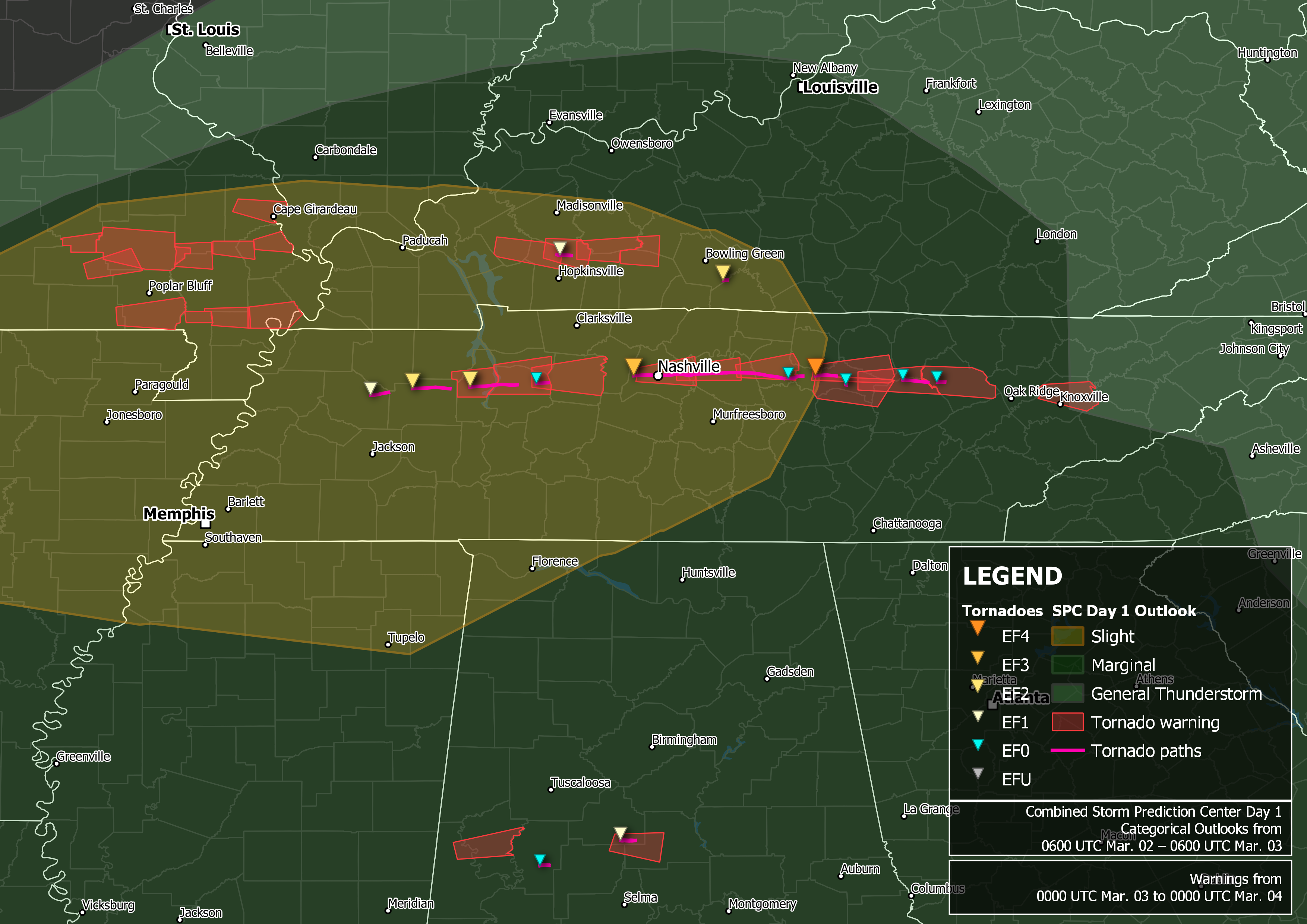 Map of tornado warnings issued by the National Weather Service from March 2 through March 3, 2020, over the southeastern United States and tornadoes confirmed and surveyed by the National Weather Service. Map produced in QGIS with border outlines from the United States Census Bureau. National Weather Service warning outlines available from the Iowa Environmental Mesonet and tornado data available from the National Weather Service.